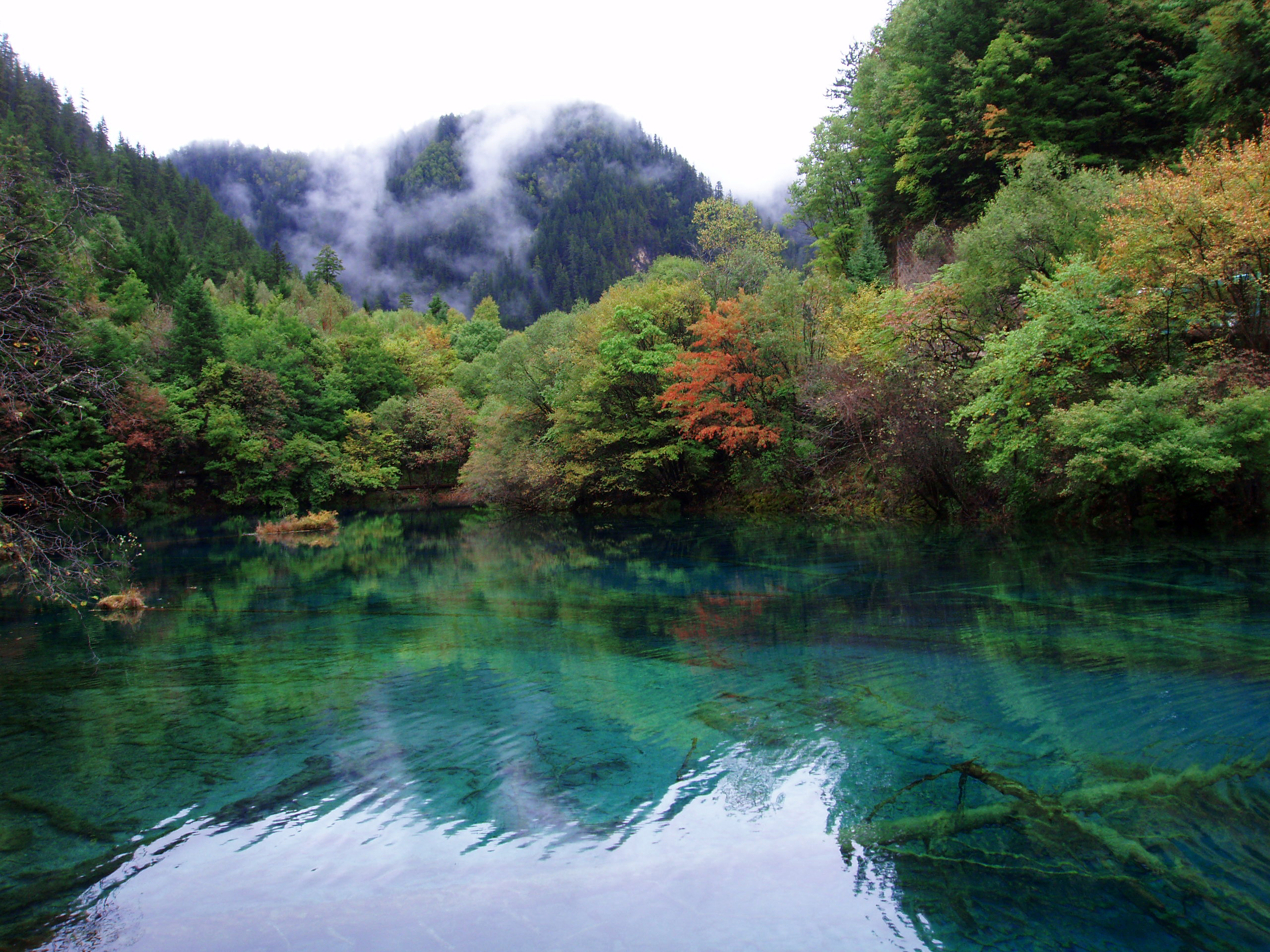 The colourful lake in Jiuzhaigou Valley,Sichuan,China